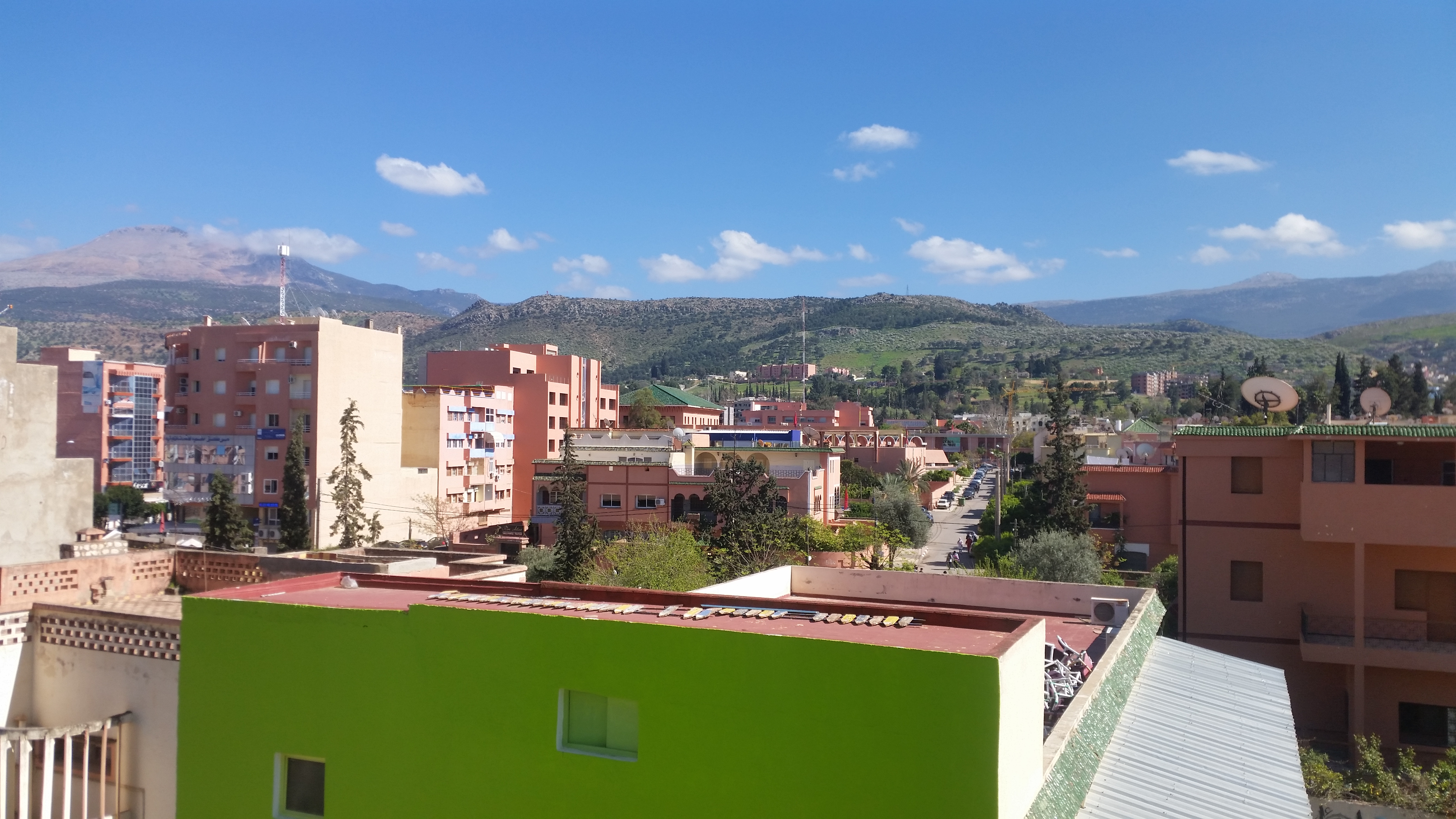 Beni Mellal, Atlas Mountains